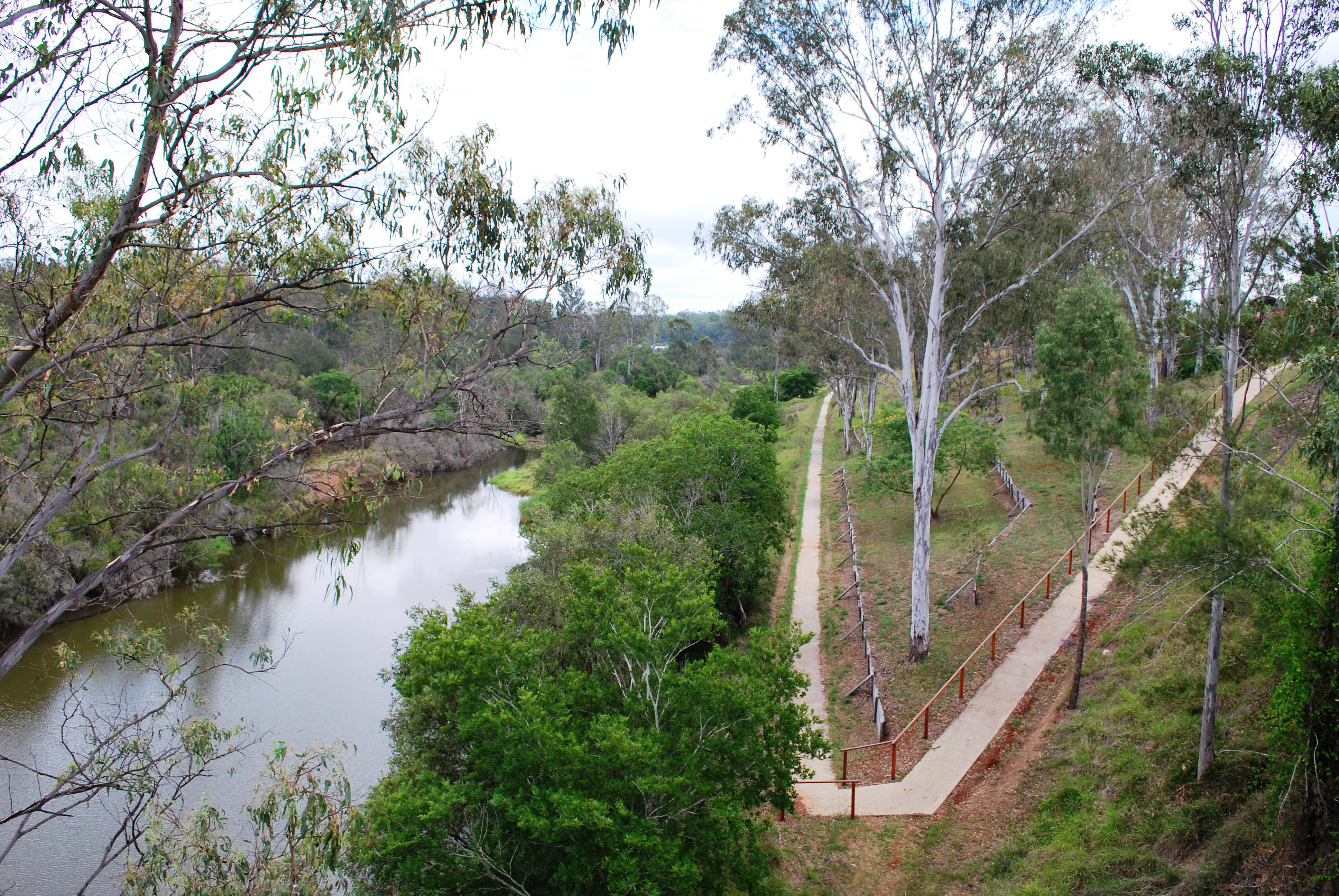 The Arthur Dagg memorial walk at Mundubbera, Queensland